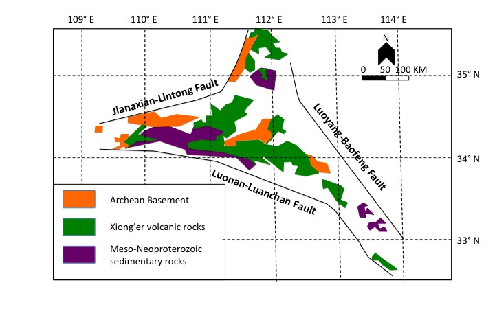 Xiong'er Simplified Geologic Map